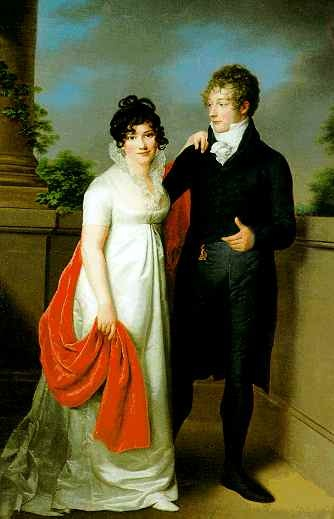 Wedding portrait of Emilie und Johann Philipp Petersen, Hamburg 1806; now in the collection of Deutsches Historisches Museum Berlin.